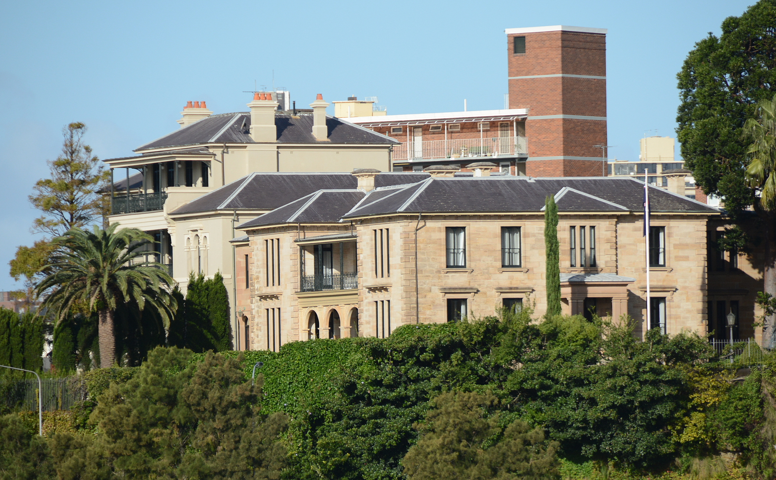 Bomera (left) and Tarana (right), Potts Point, Sydney (seen from west side of Woolloomooloo Bay)